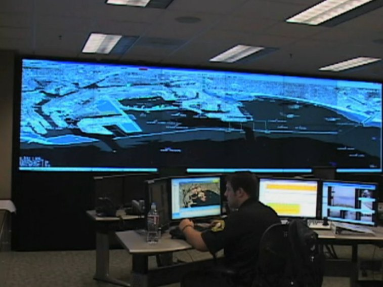 Screen capture from the movie in the link shown. The security room at the Port of Long Beach. Officer monitors the port and all incoming and outgoing ships for 11 miles around the port.